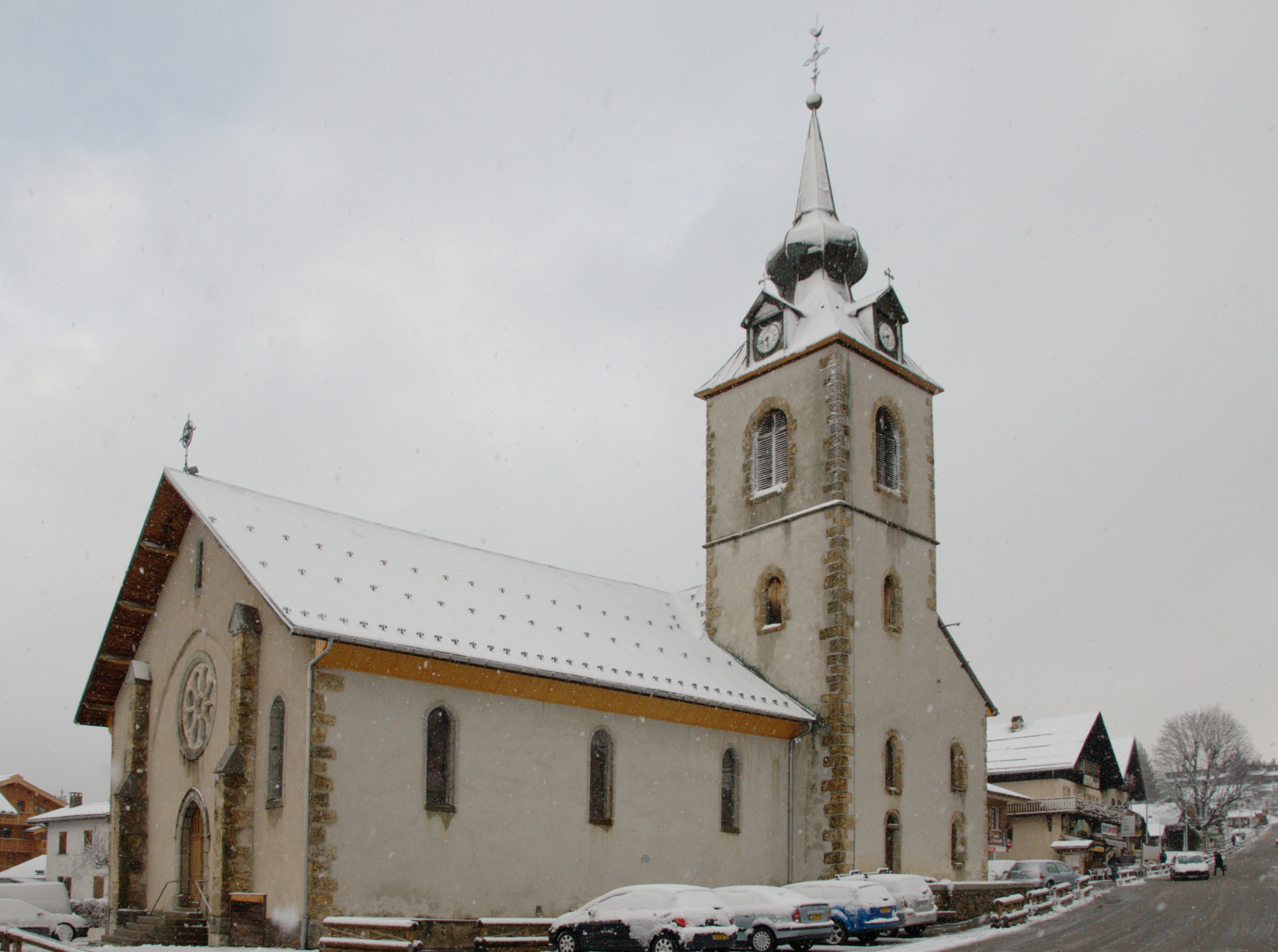 Church in Notre-Dame-de-Bellecombe